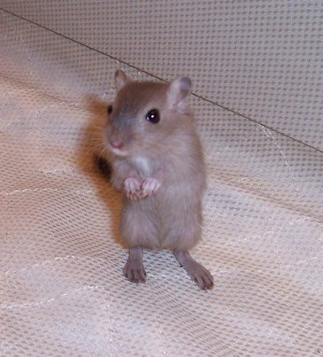 Burmese gerbils start out with a dark chocolate color. At around eight weeks they molt and their tail, nose, feet, and tips of their ears become black while the rest of their body stays the same color. Because Burmese gerbils are simply black gerbils with the colorpoint gene, nearly all of them have white stripes on their paws and chin.